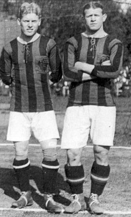 Karl Braunsteiner and Josef Brandstätter - Austrian Association Football Team at the Olympics 1912